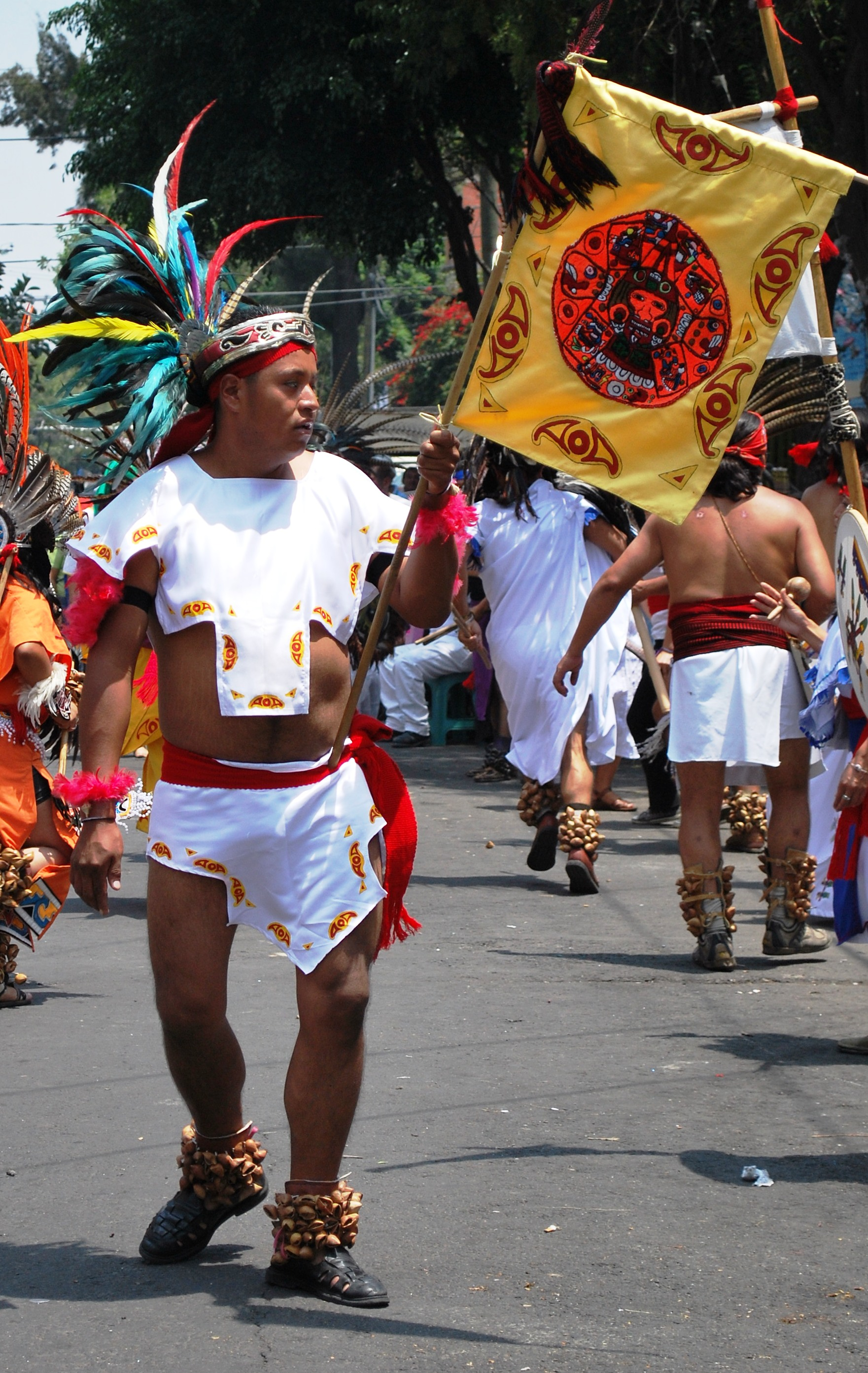 Aztec dancer with banner dancing in honor of the Virgin of San Juan de los Lagos in Colonia Doctores, Mexico City